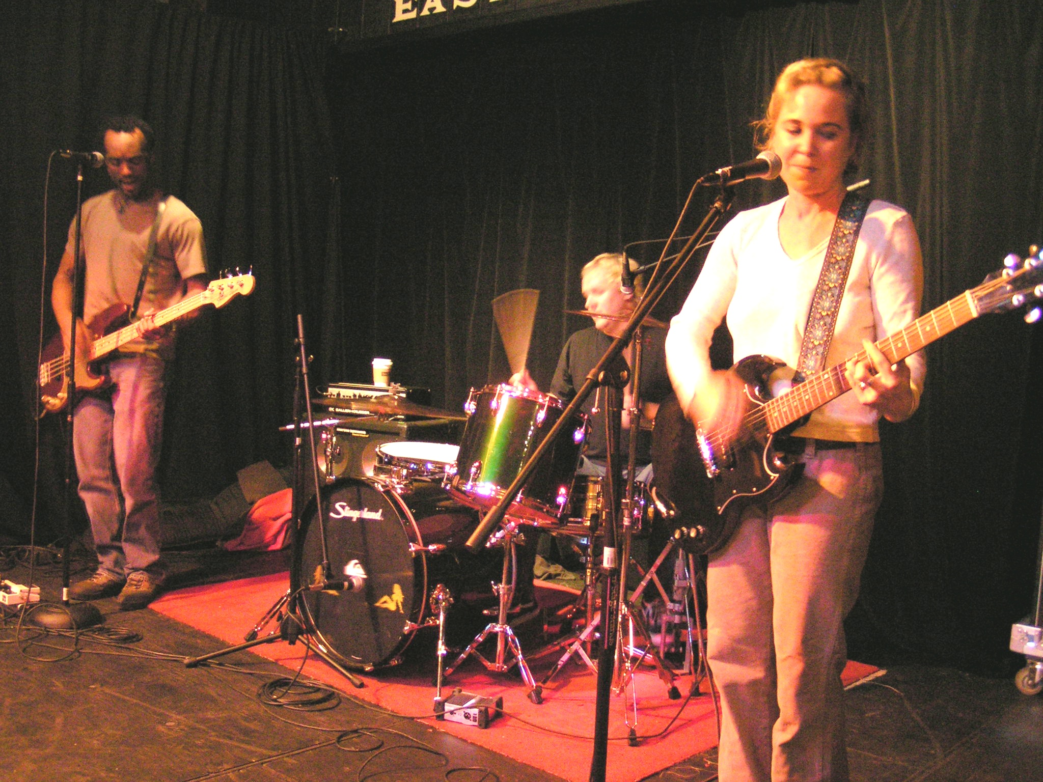 50 Foot Wave performing at Easy Street Records